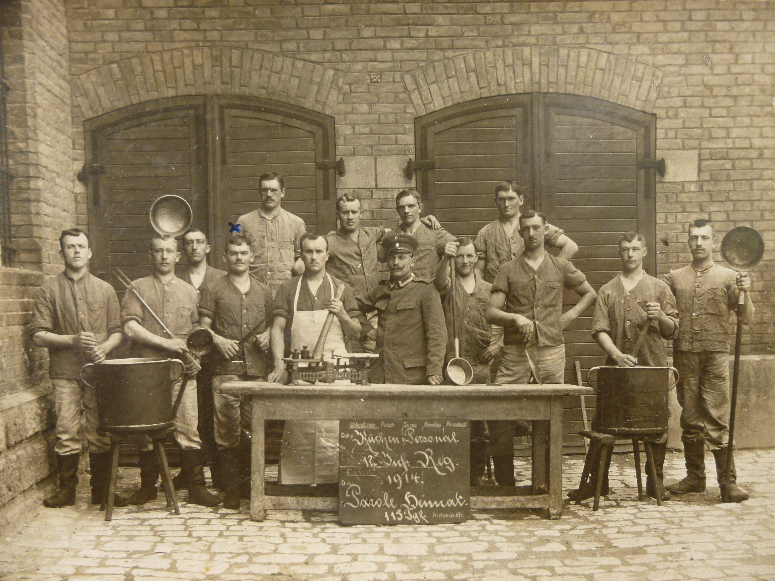 Royal Bavarian 12th Infantry Regiment 1914 - Kitchen staff